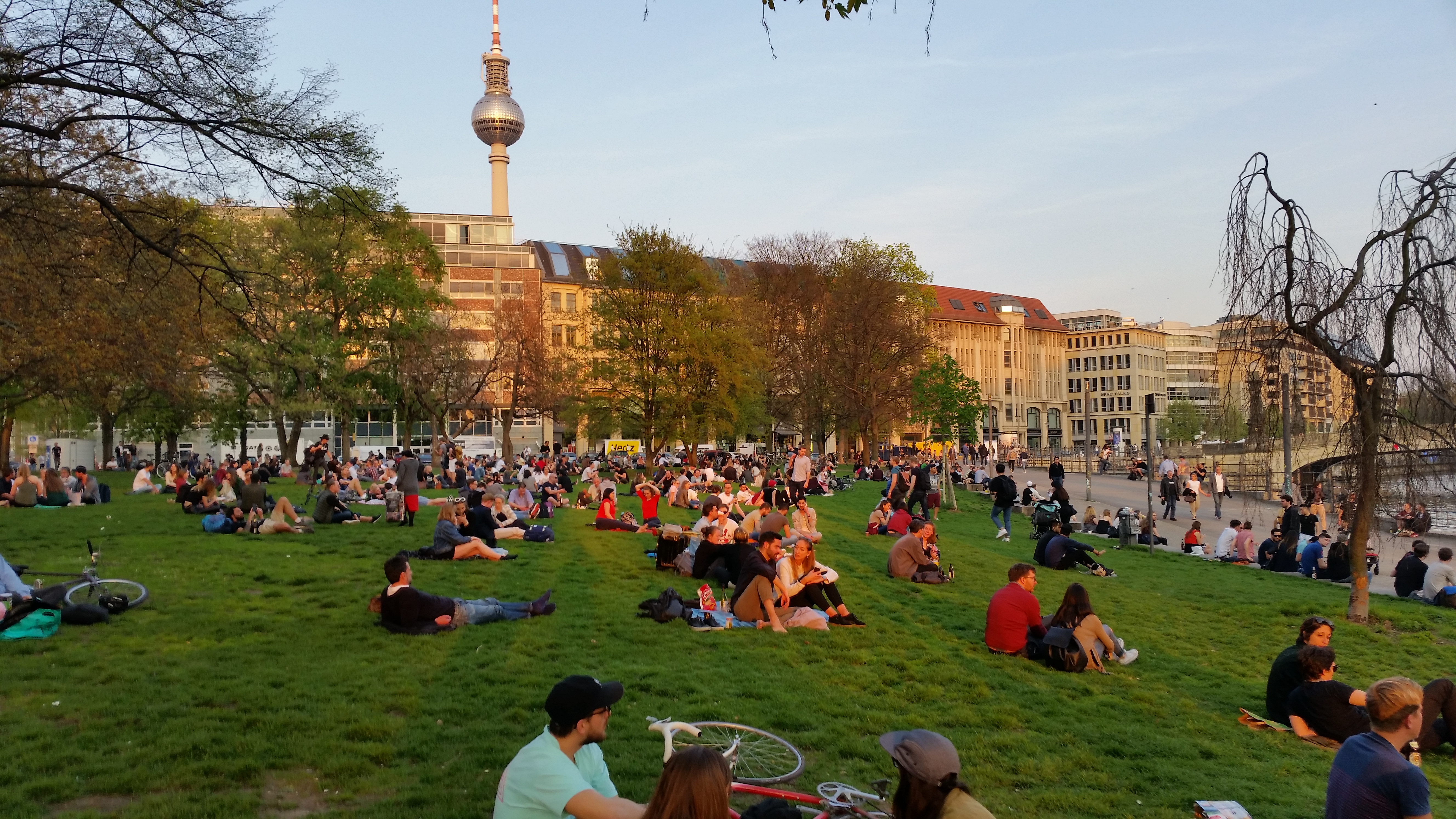 James-Simon-Park in Berlin, with people relaxing in the evening air.